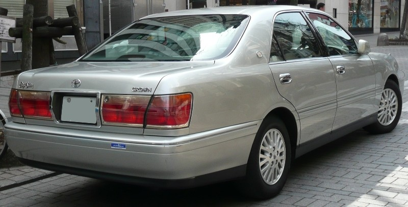 Toyota Crown rear.